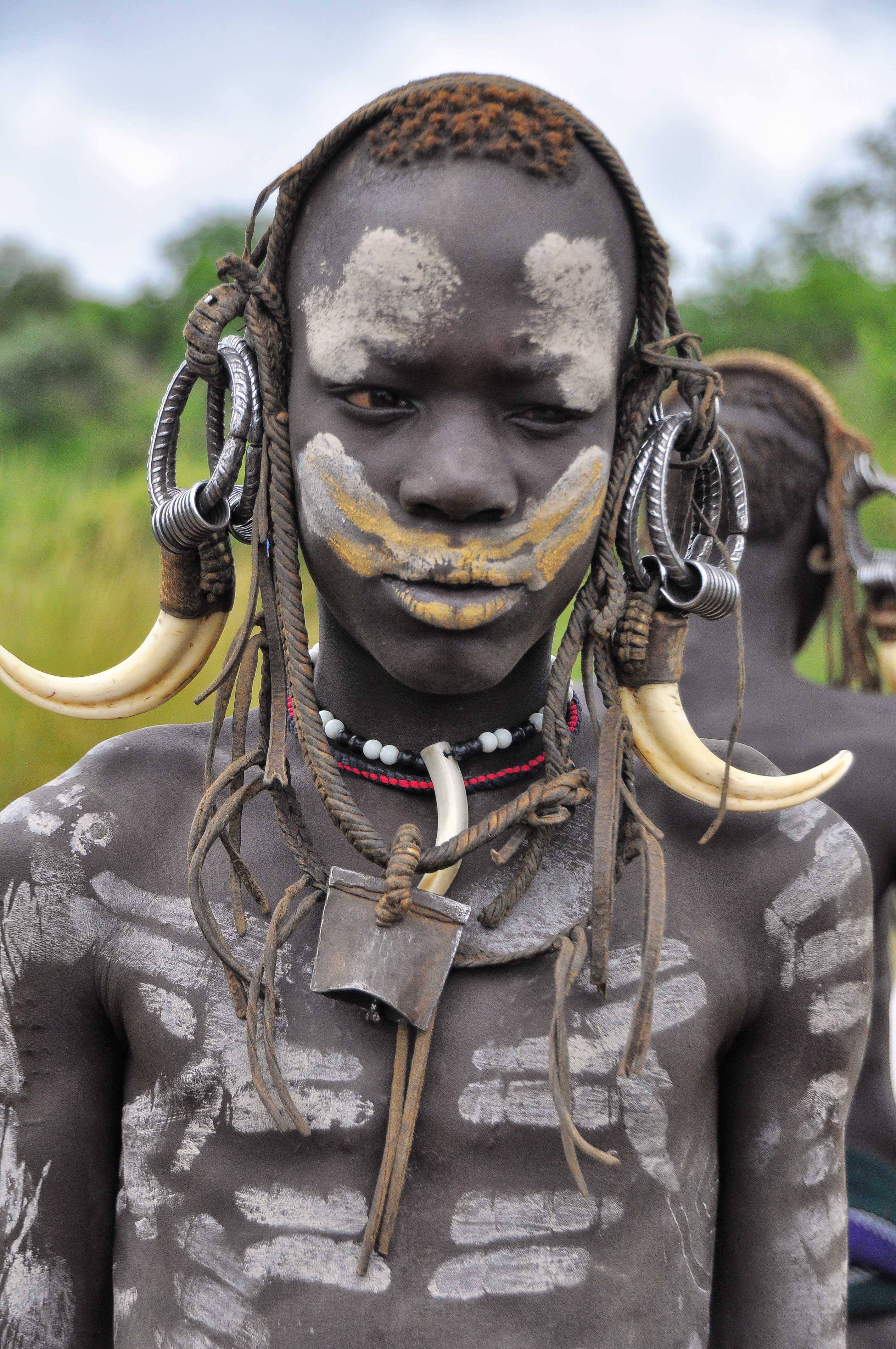 Mursi Tribe, Ethiopia